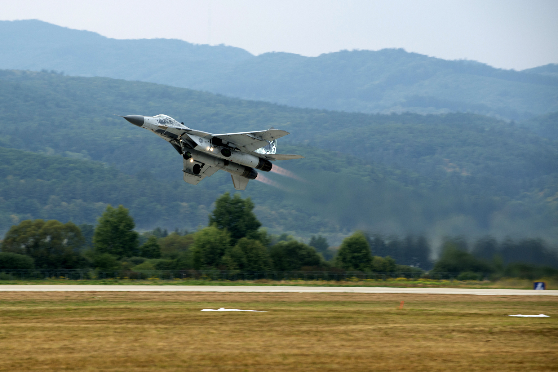 A Slovak Air Force MiG-29 takes off to perform an aerial demonstration during the Slovak International Air Fest, Sept. 2, 2012, Sliac, Slovakia. Aircraft from accross Europe and Asia participated in the air show with displays and aerial demonstrations. (U.S. Air Force photo by Master Sgt. Greg Steele/Released)